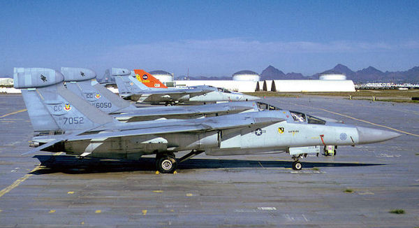 Retiring EF-111s of the 27th Fighter Wing, 1994. Taken at Davis-Monthan AFB upon arrival at AMARC